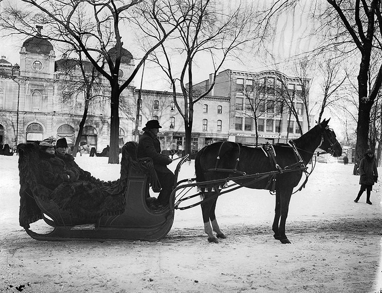 II-164007 A. W. Speir and wife in sleigh, Phillip's Square, Montreal, 1907 Wm. Notman & Son 1907, 20th century Notman photographic Archives - McCord Museum II-164007 A. W. Speir et son épouse en carriole, square Phillip, Montréal, 1907 Wm. Notman & Son 1907, 20e siècle Archives photographiques Notman - Musée McCord To see the image file on the McCord Museum website, click on the following link: Pour voir la fiche descriptive de cette photographie sur le site Web du Musée McCord, cliquer le lien suivant